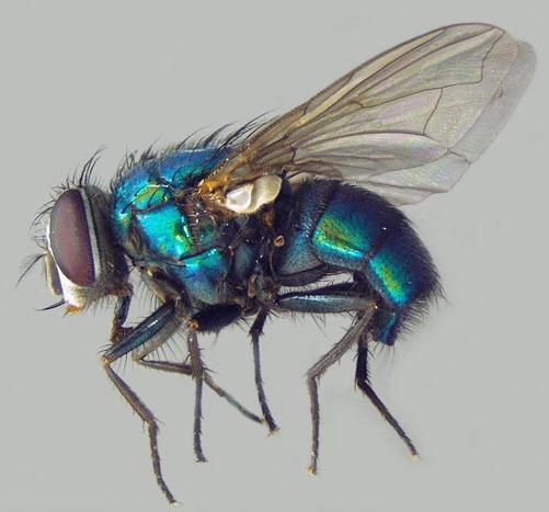 Blowfly